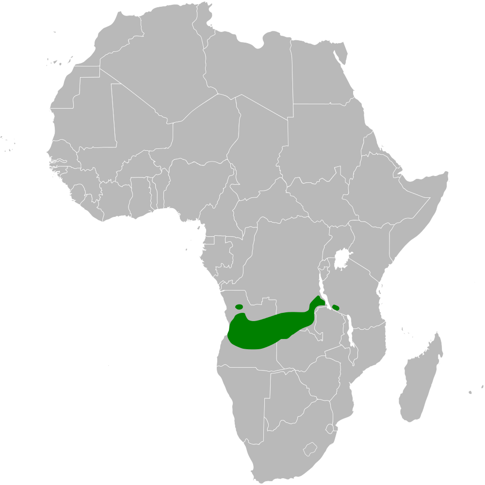 Mirafra angolensis distribution map; using BlankMap-Africa.svg, based on